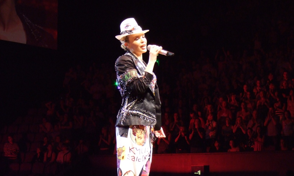 Kylie